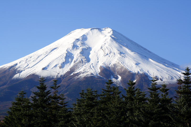 Mount Fuji seen from the Northeast.